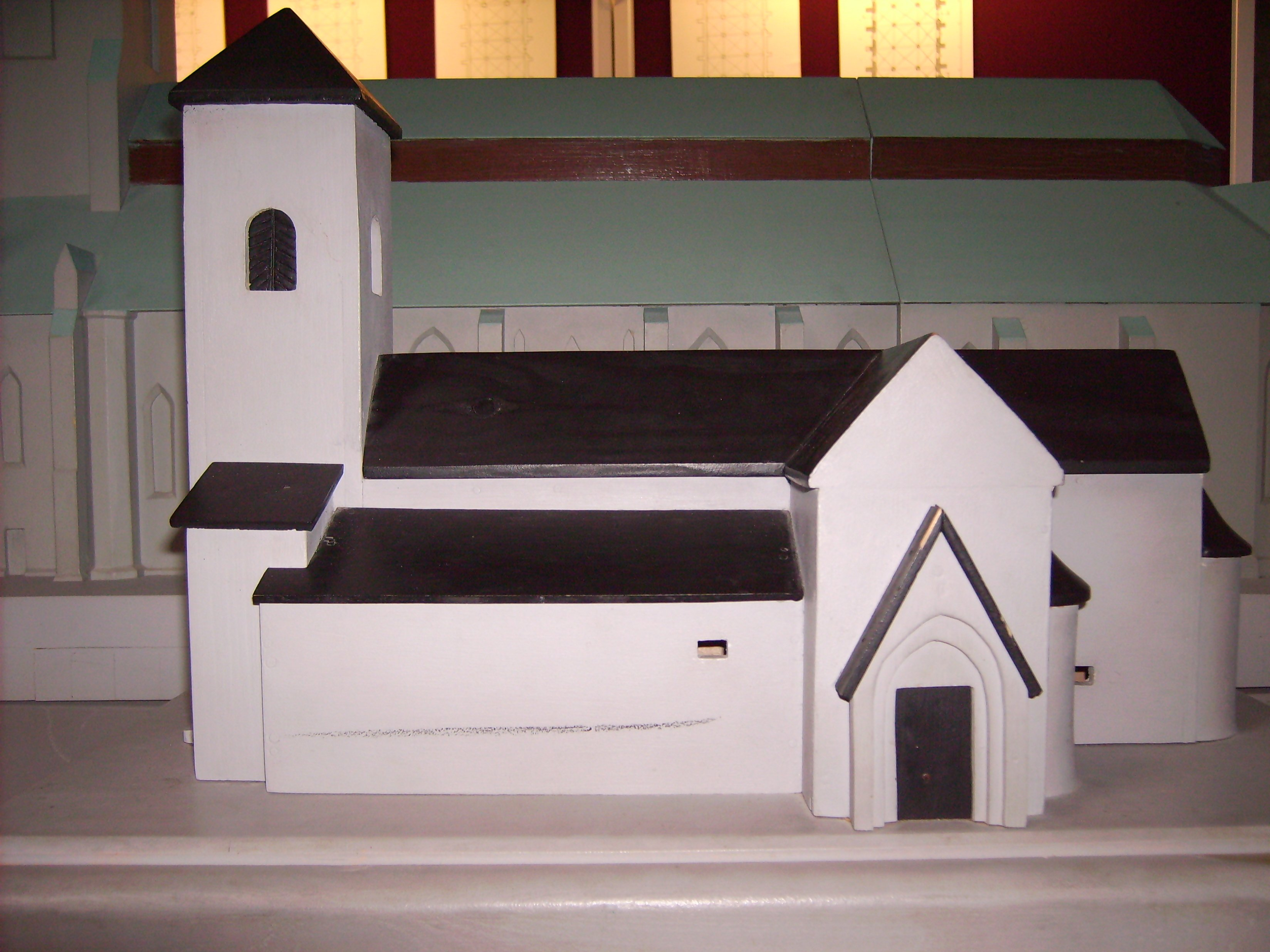 Photo by Harri Blomberg.